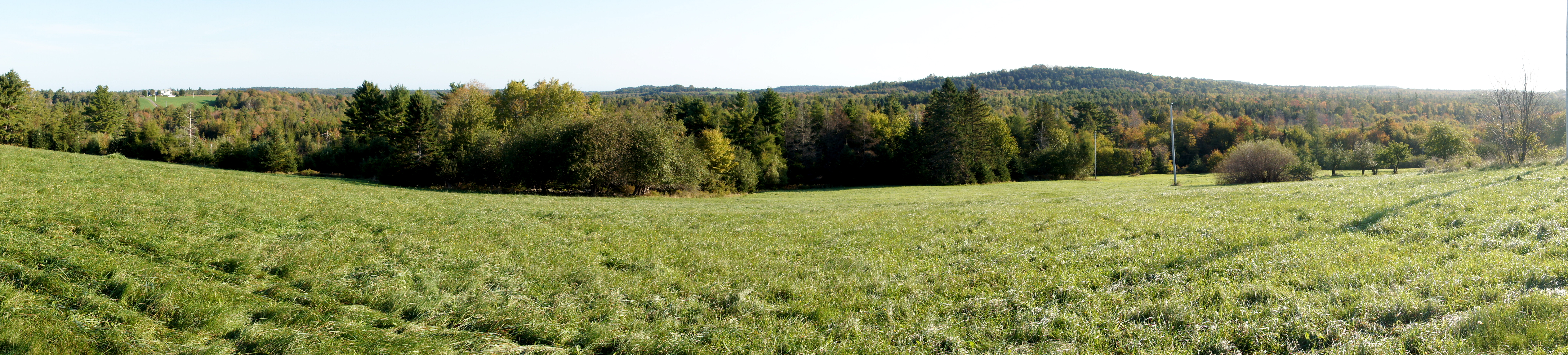 One of Waterloo's main physical features are the drumlins or little hills. This image shows the "Lionel Wile Hill" to the left and the "Michael Wile Hill" to the right. The image is taken from the "Bolivar Hill."